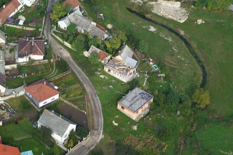 Öskü, Hungary, aerialphotography